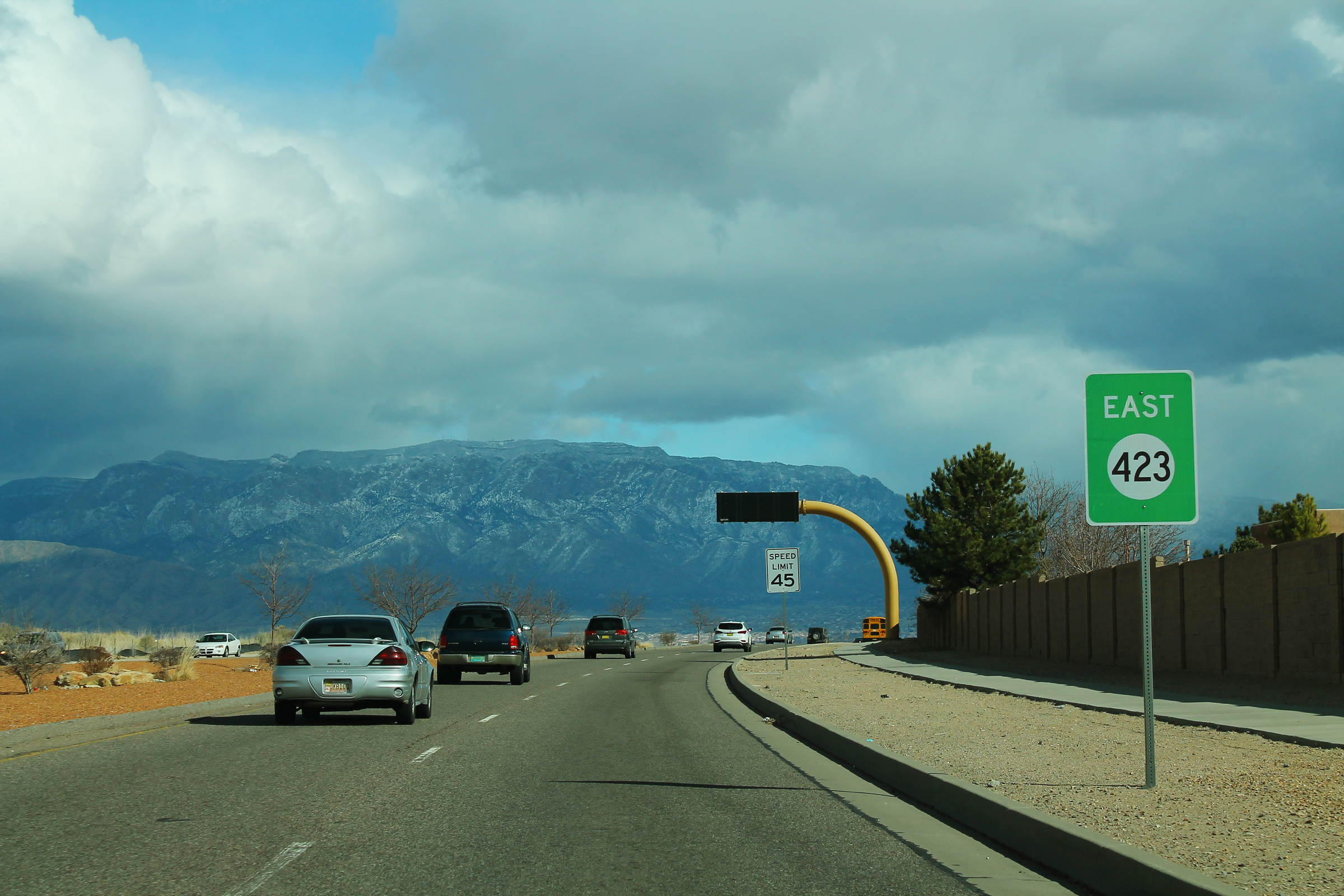 NM423eRoadSign-WestOfNM45